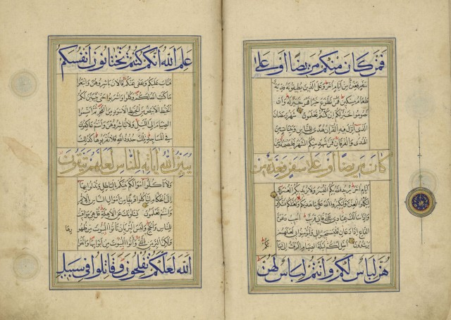 From the Qur'an, verses about the month of Ramadan, a flower adorns the end of each verse